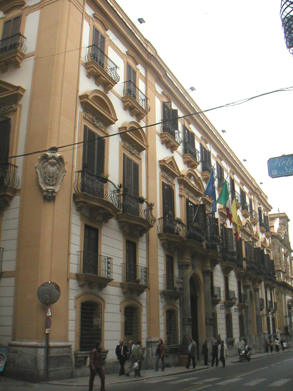 Gravina di Comitini Palace (Palermo, Italy)